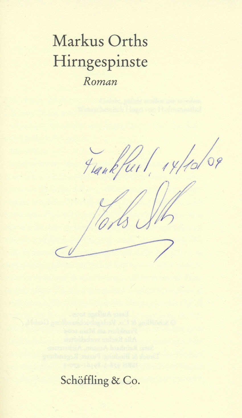 Autograph from Markus Orths, German writer